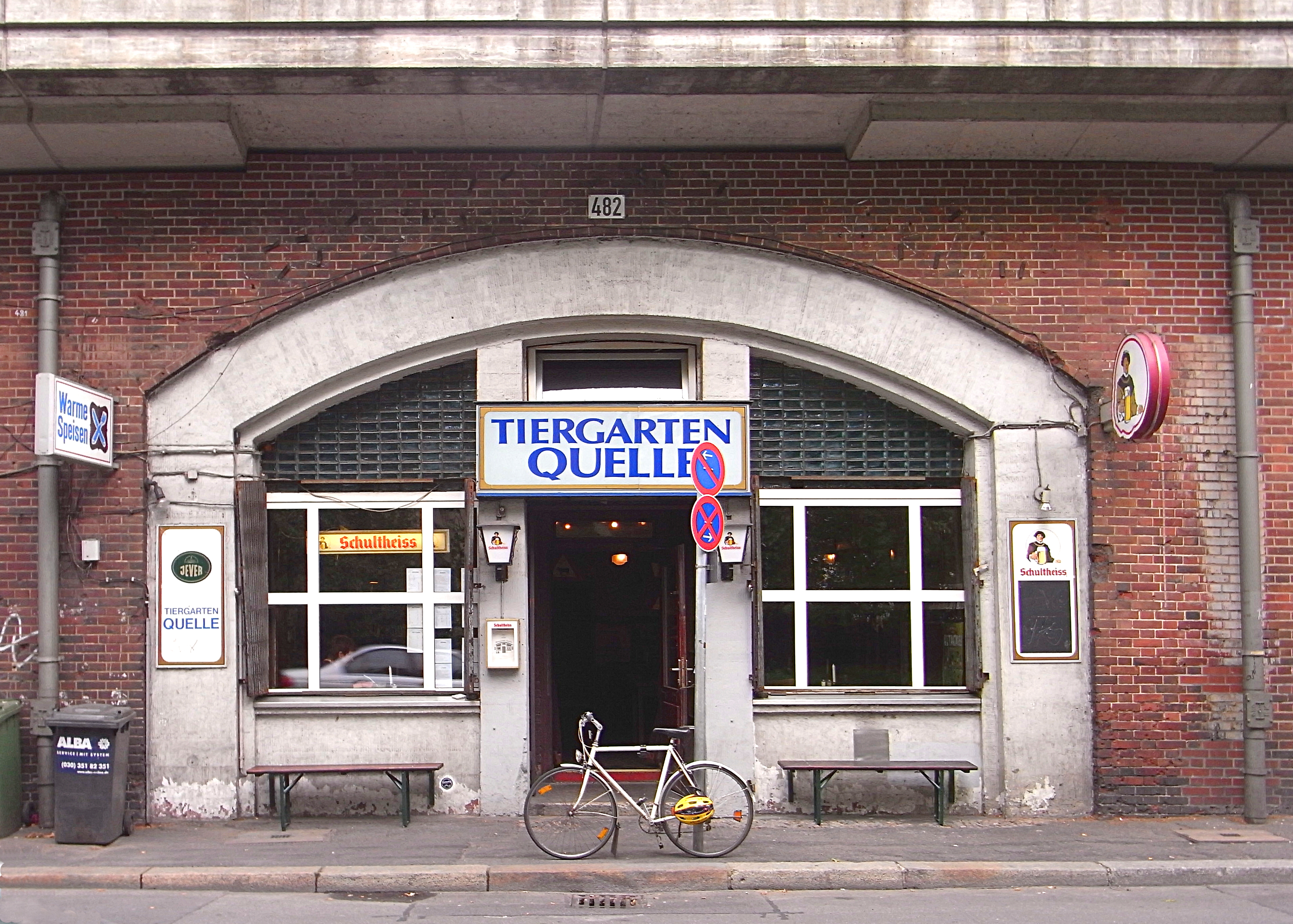 S-Bahn Bogen No. 482, Bachstraße 6, D-10555 Berlin-Hansaviertel, Restaurant Tiergarten Quelle, directly beneath S-Bahn Tiergarten station